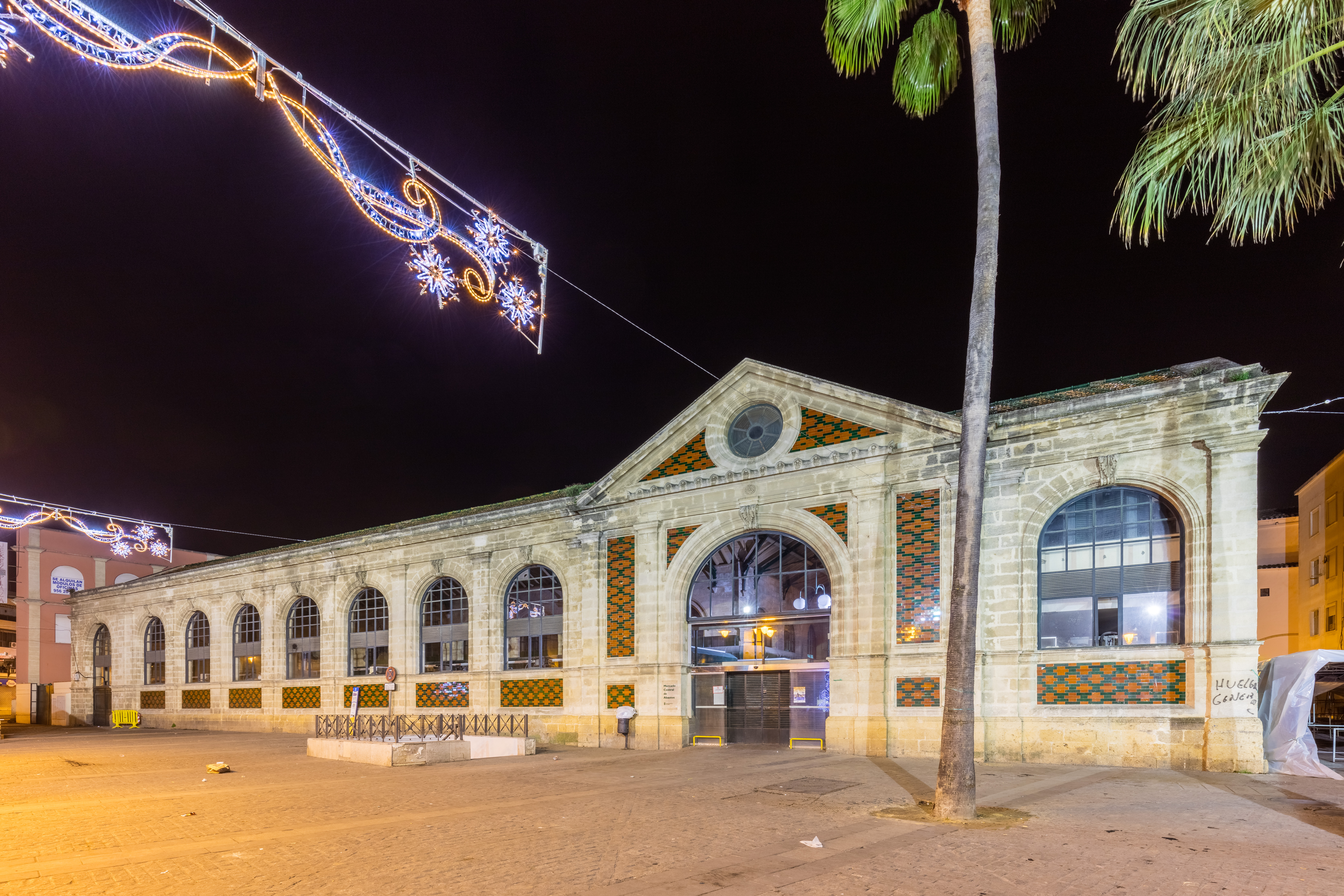 Central Market, Jerez de la Frontera, Spain